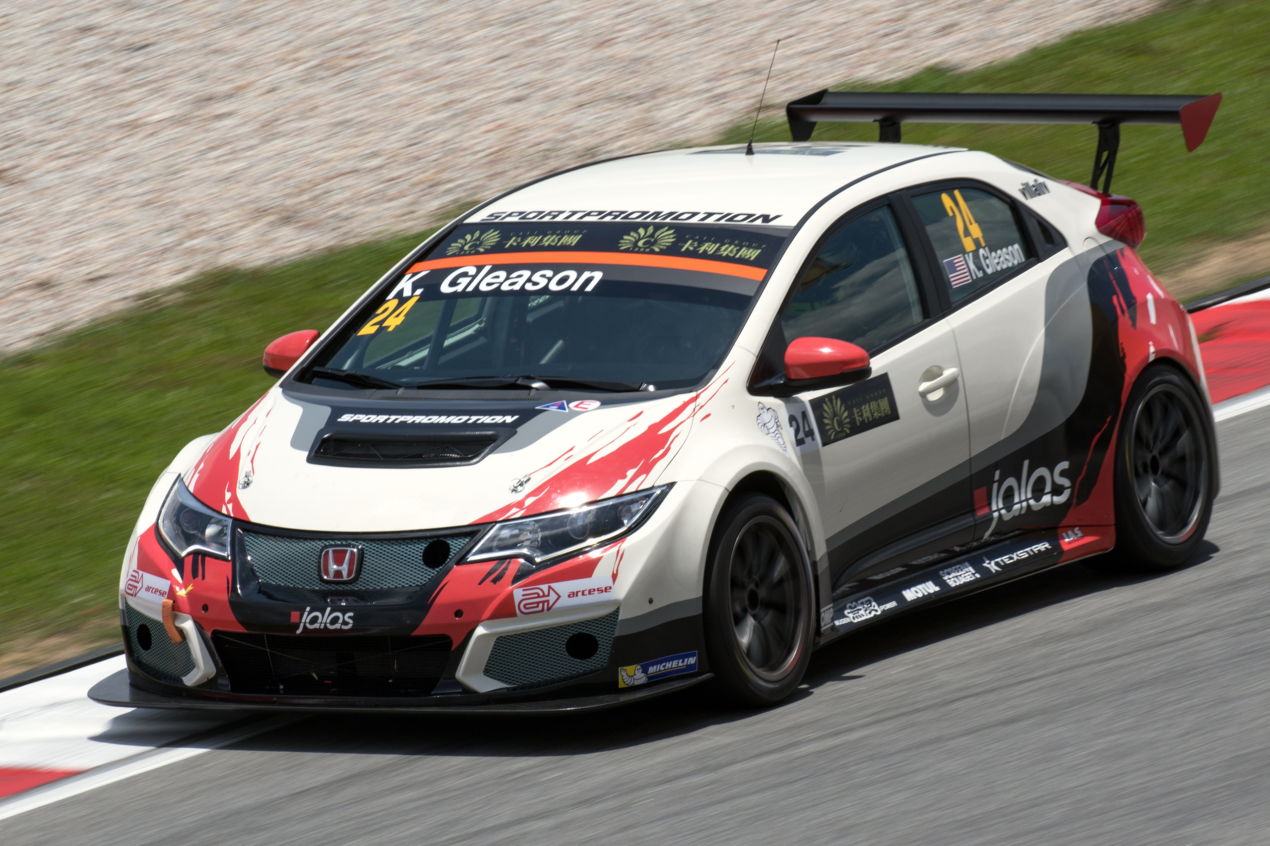 TCR International Series 2015 Rd.1 Malaysia: Kevin Gleason (WestCoast Racing)